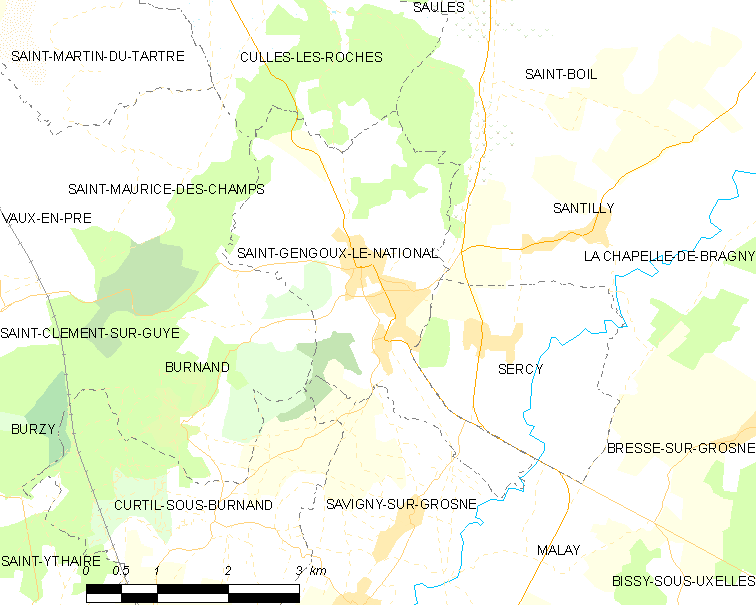 Map of French municipality